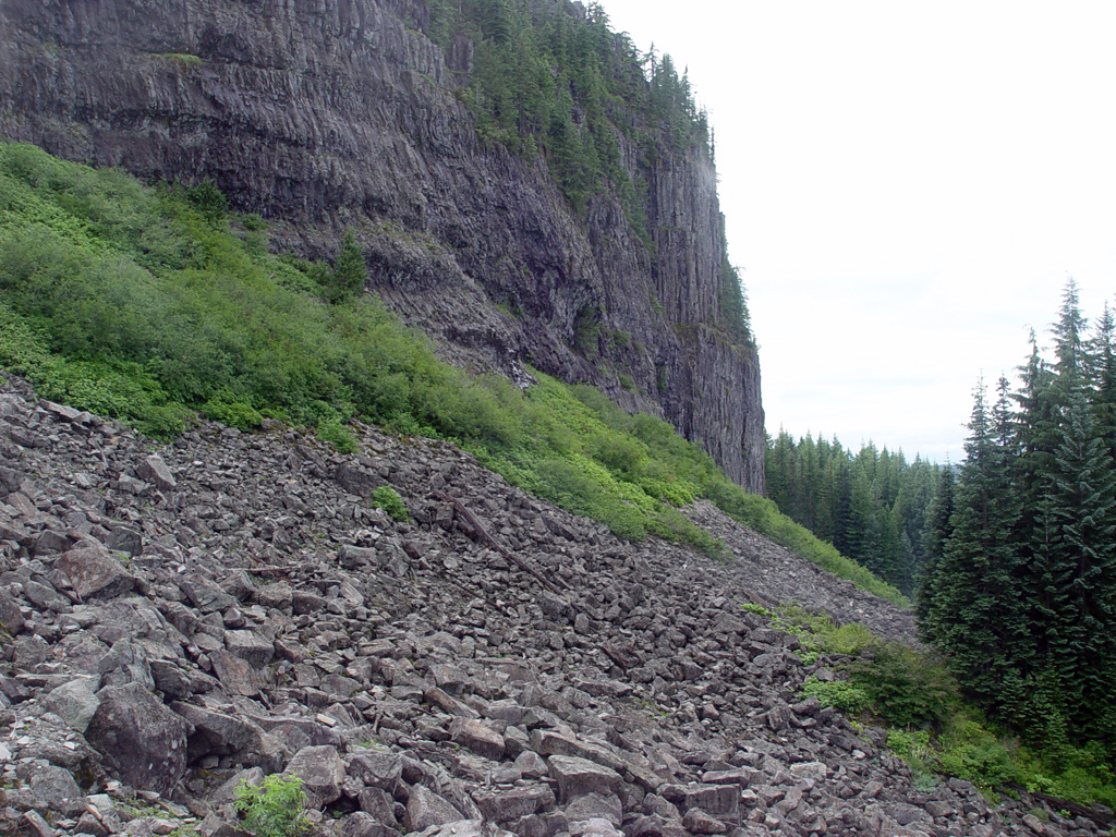 Rock field below Table Rock — a columnar basalt rock formation, in the Table Rock Wilderness. A BLM Wilderness Area in the western Cascade Mountains, northwestern Oregon.